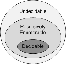 Decision Problem Closure Diagram